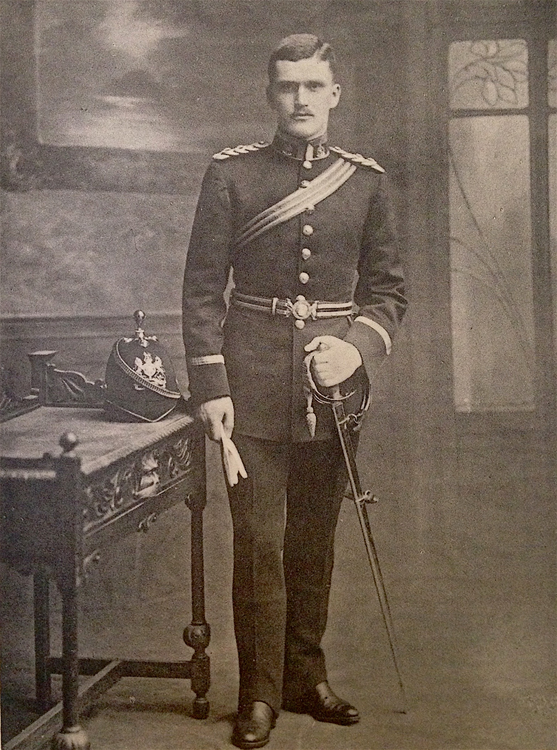 Captain Ernest Cotton Deane, MC, RAMC